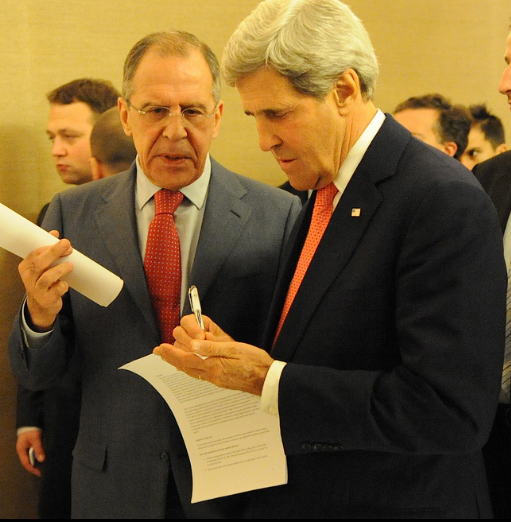 U.S. Secretary of State John Kerry takes notes on the back of a piece of paper as Russian Foreign Minister Sergey Lavrov speaks with him about policy matters after the P5+1 member nations concluded a nuclear deal with Iran in Geneva, Switzerland, on November 24, 2013.